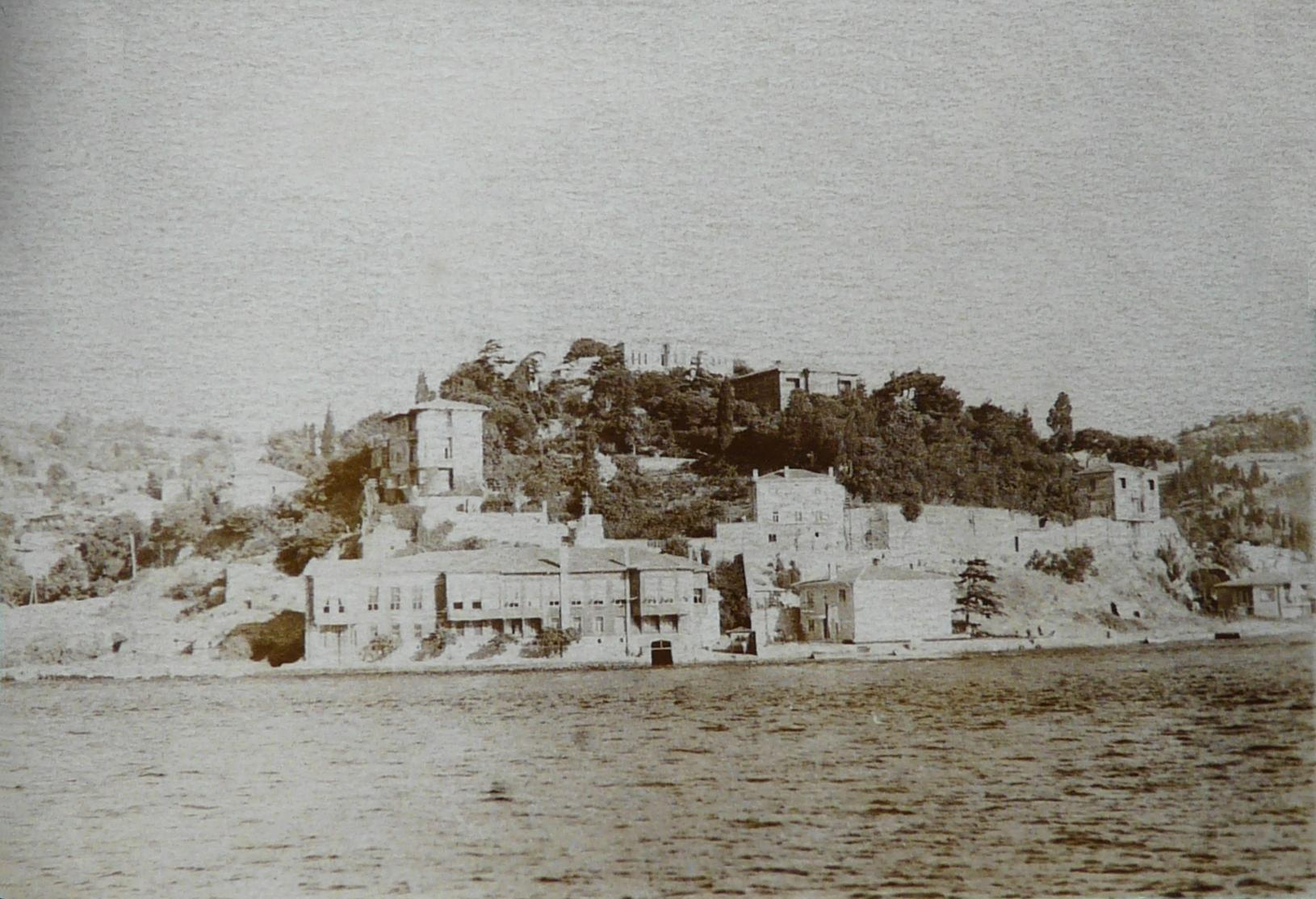 Bosphorus Strait from ship Nezhin in 1956-1958